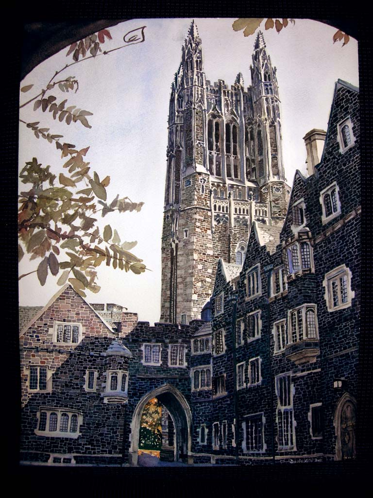 An autumn view of Cleveland tower at the graduate college, Princeton University. This watercolor painting, completed 2006 February 06, and the photograph, taken 2005 November 06, upon which it was based are my original works. David Liao